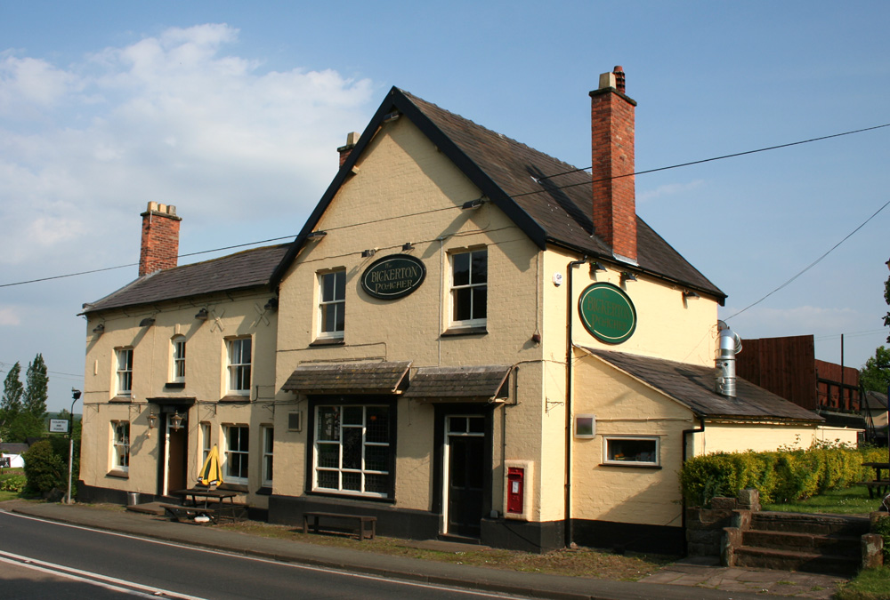 Bickerton Poacher, near Bulkeley, Cheshire